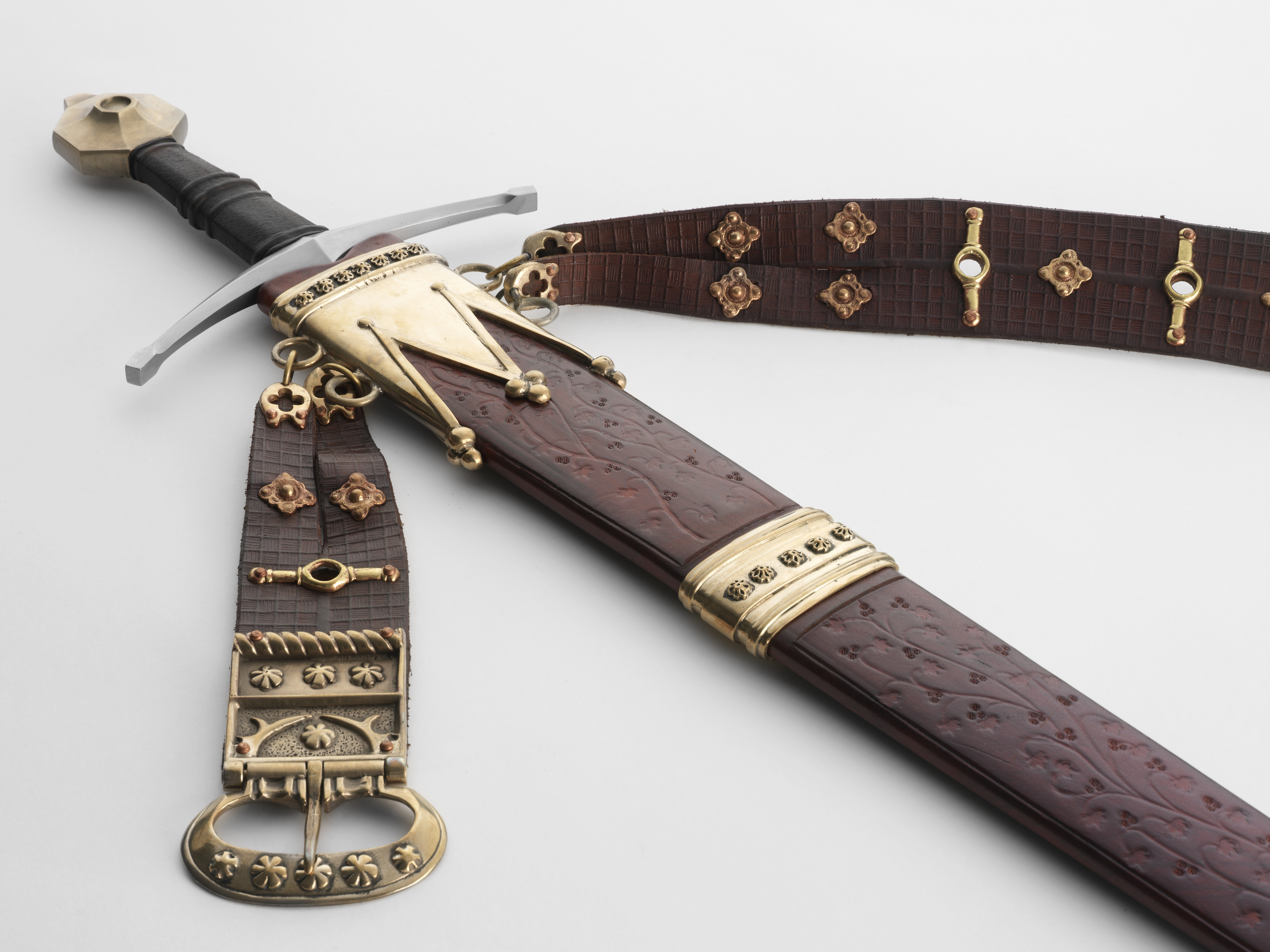 Scabbard_Tod_Prince_Medieval_Sword_6